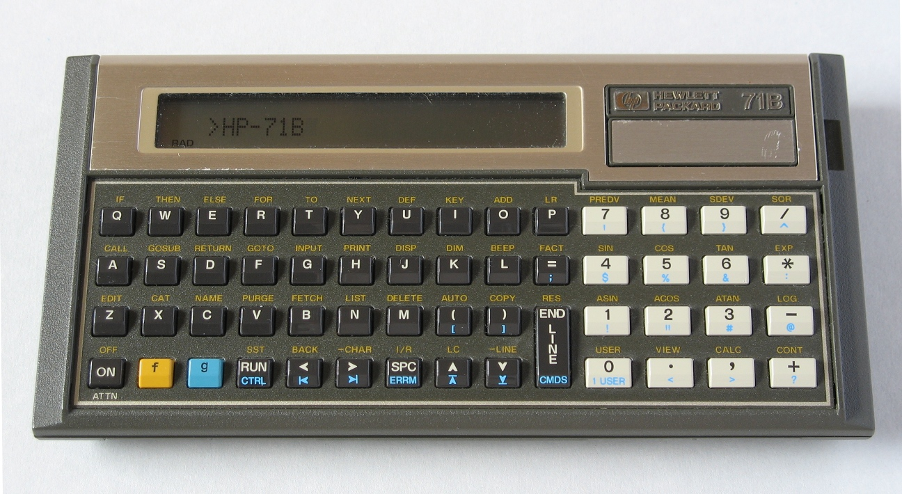 HP-71B Taschencomputer